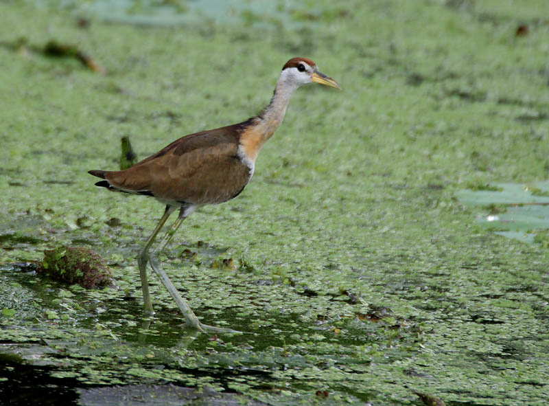 Bronze-winged Jacana Metopidius indicus in Kolkata, West Bengal, India.